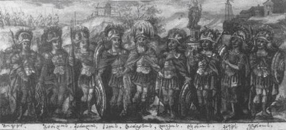 Thargamos and his sons. The order of the figures from left to right is: Movakan, Bardos, Kartlos, Haos, Lekos, Thargamos, Cavcasus, Egros. An opening folio of the Georgian Chronicles (Vakhtangiseuli redaction), 1700s.